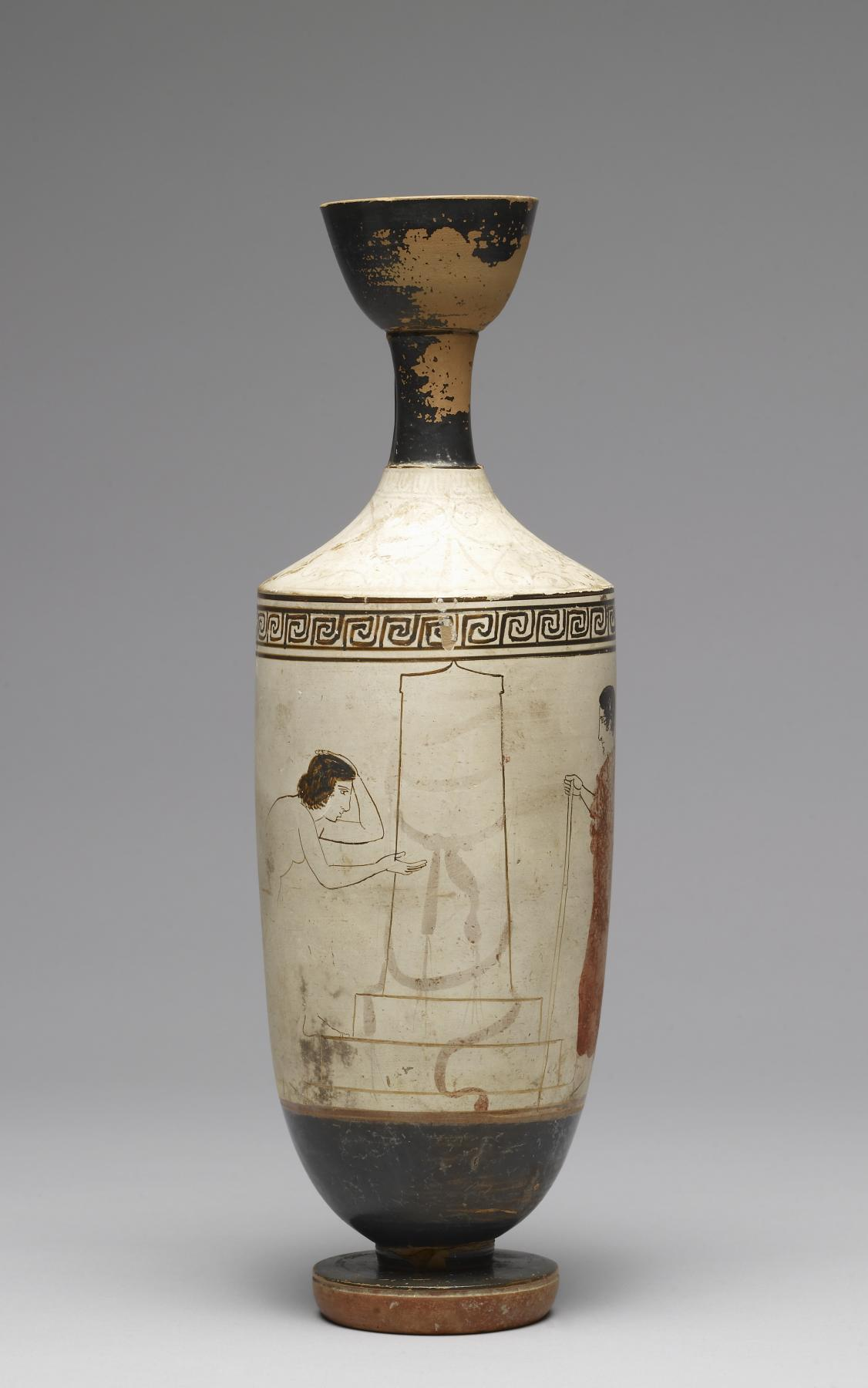 The women of the family were responsible for tending the graves of the dead and are frequently depicted on delicate "lekythoi," or oil-containers, such as this one, carrying out this activity. A mourning woman bends over a tomb, as a youth approaches her unseen. He represents the deceased, whom the Greeks believed lingered near the tomb after death. Many "lekythoi" intended for funerary use were decorated in the delicate white-ground technique, which used colorful pigments lightly painted on a white background. The pigments flake off easily, often leaving only the preliminary drawing, as on the woman's dress here.